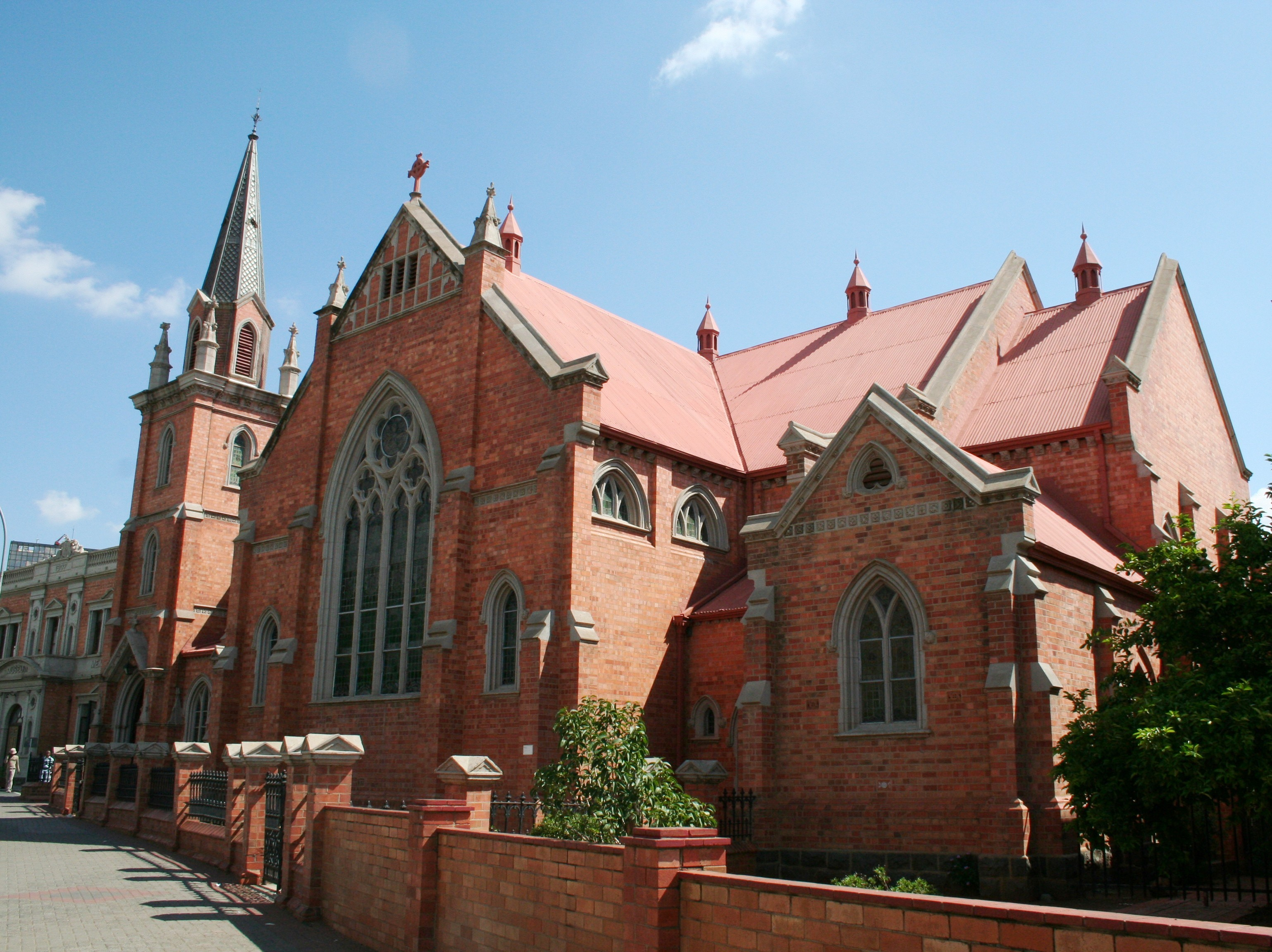 This media shows a South African Protected Site with SAHRA file reference 9/2/049/0106.